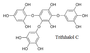 Trifuhalol C scheme